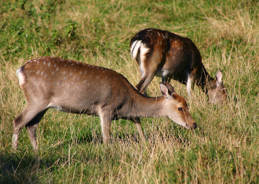 Sika deer, (Cervus nippon) at Skandinavisk Dyrepark, Denmark